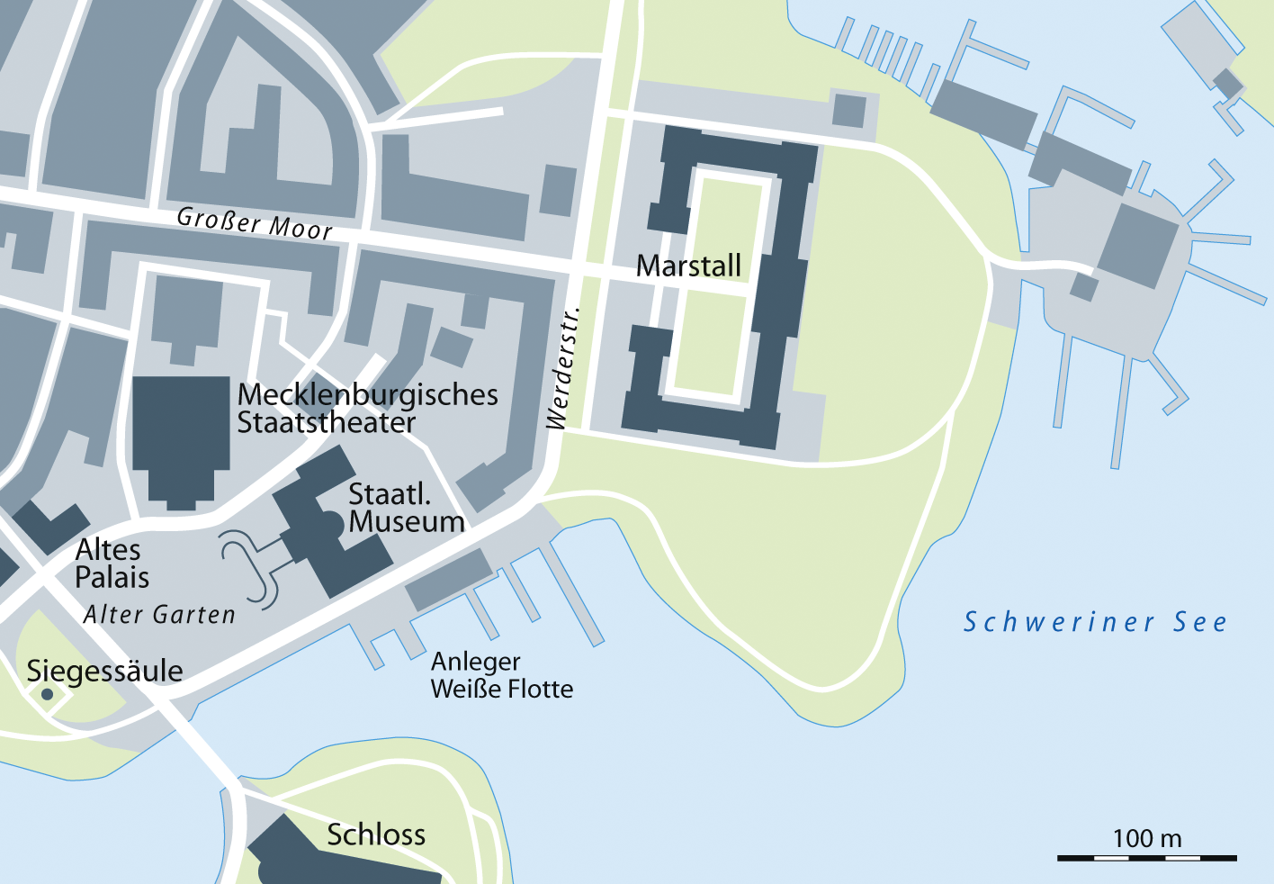 Map of the Marstall (stable) in Schwerin, Germany